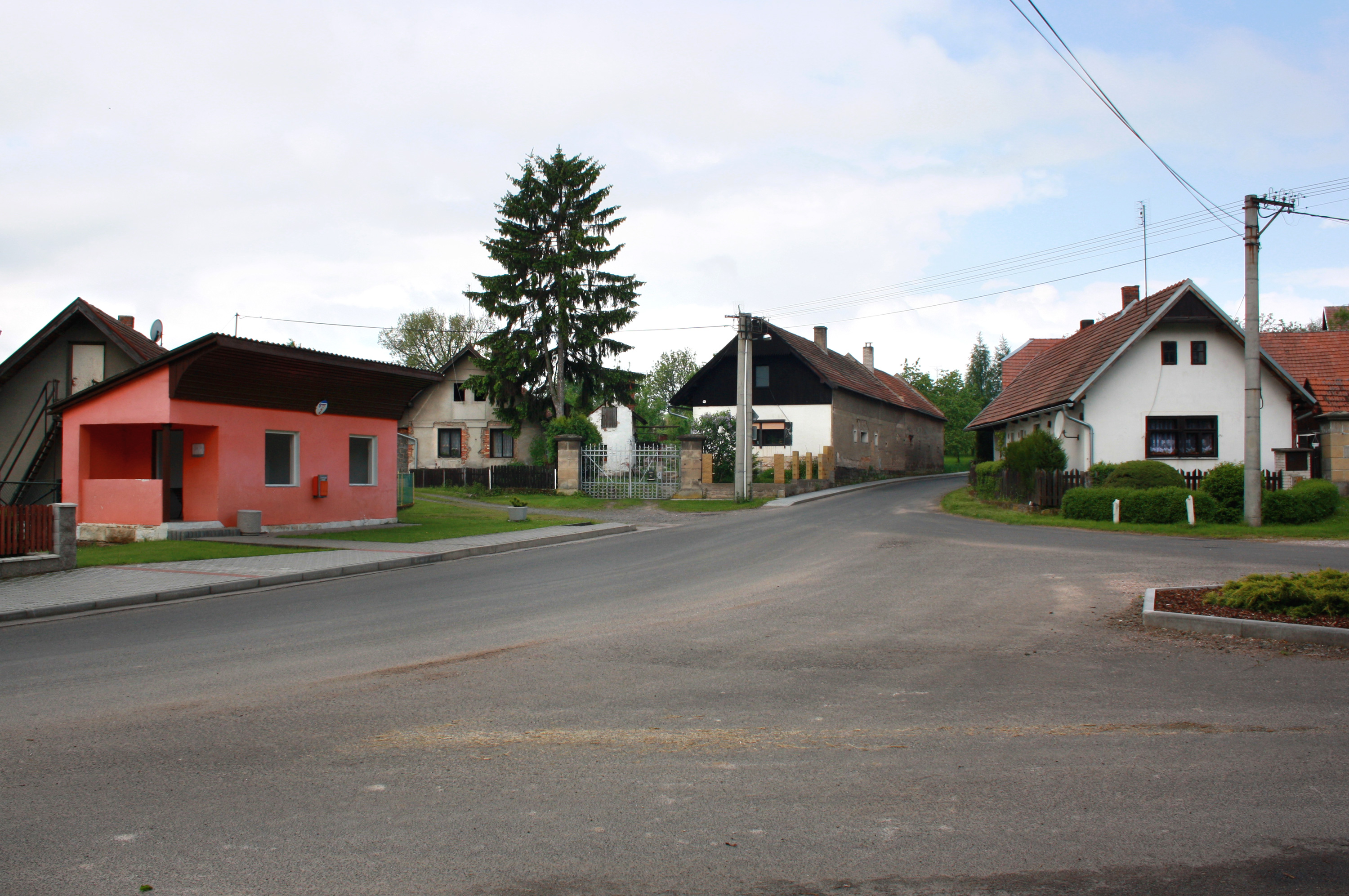 Common in Údrnice village, Czech Republic